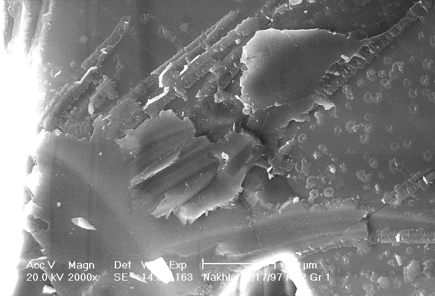 Complex biomorphs appear on another Nakhla chip shown in this scanning electron microscope (SEM) frame. This image contains three basic forms: Broad smooth knife-shaped features, elongated features with rounded endcaps and transverse compartments or dividers, and donut shaped small features, each about 1 micrometer in diameter. One possibility is the donut-shaped features are derived from the compartments present in the elongated features.